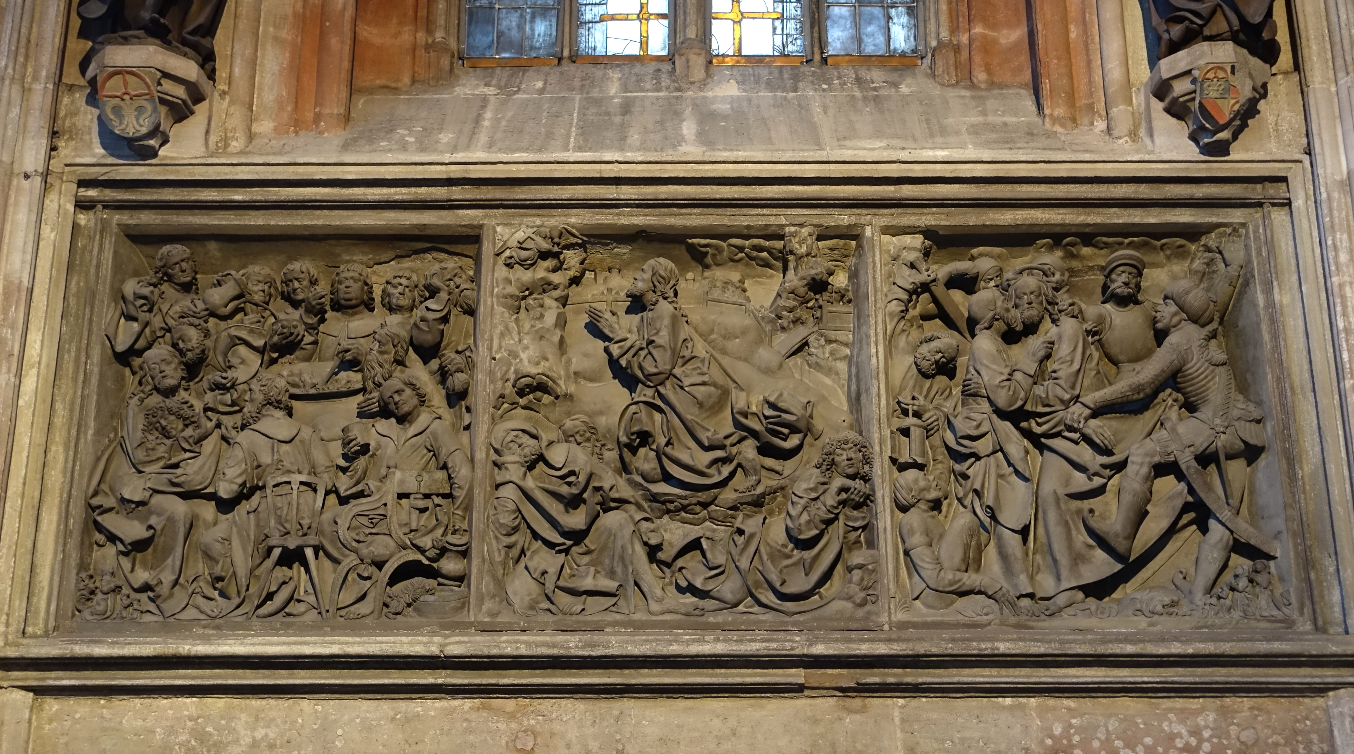 Volckamer Epitaph - St. Sebald church - Nuremberg, Germany.